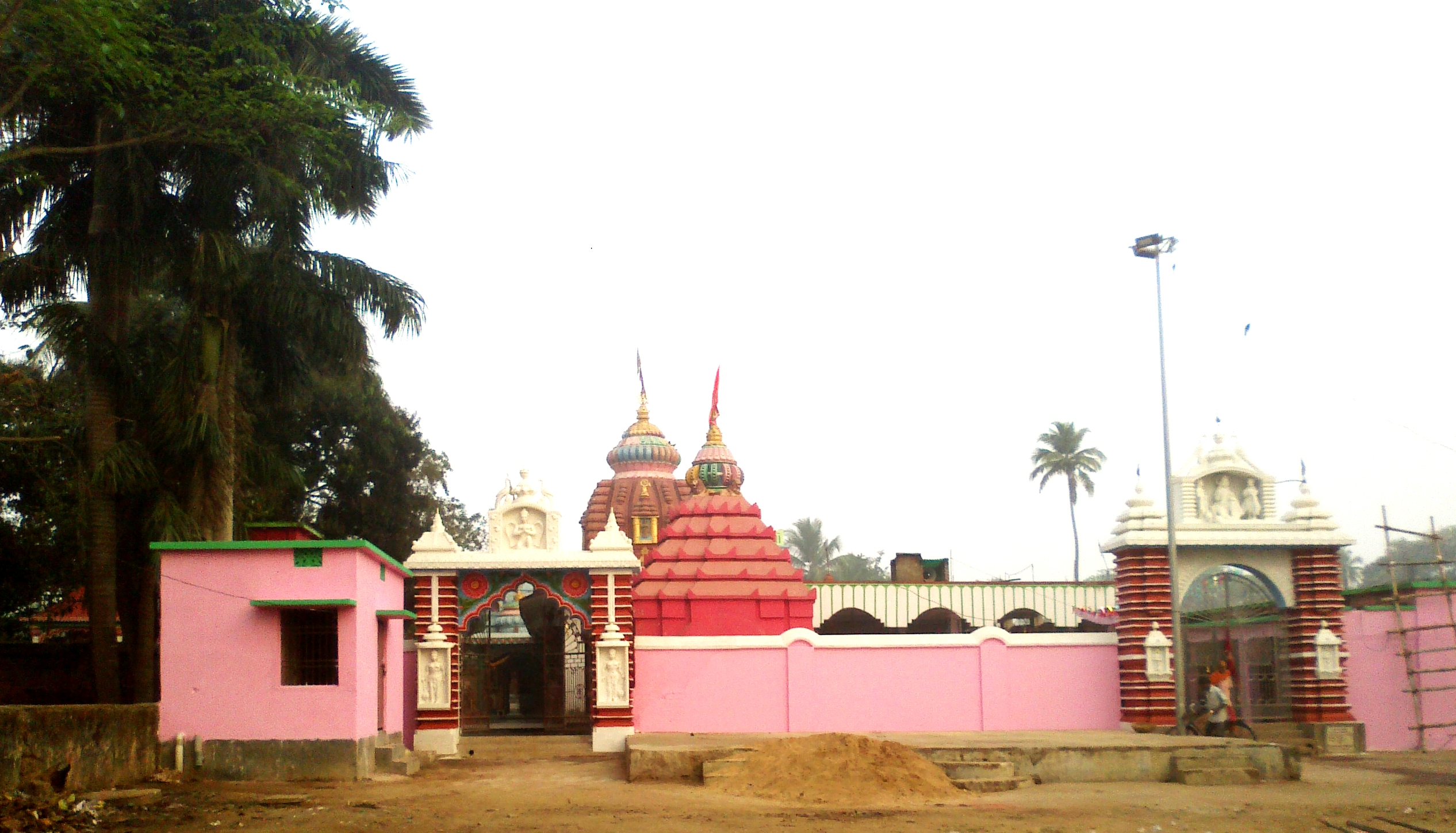 Shreeram Temple in Pattamundai Daily Market